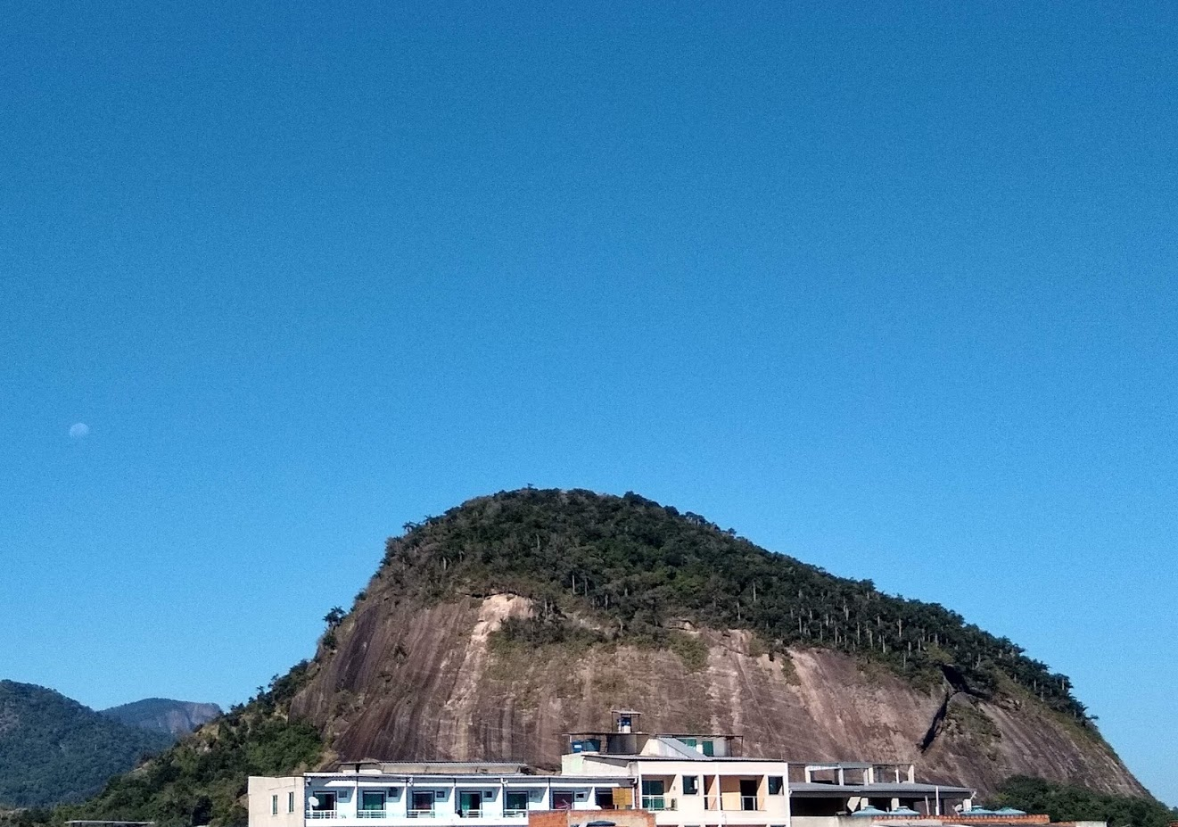 large stone located in Brazil